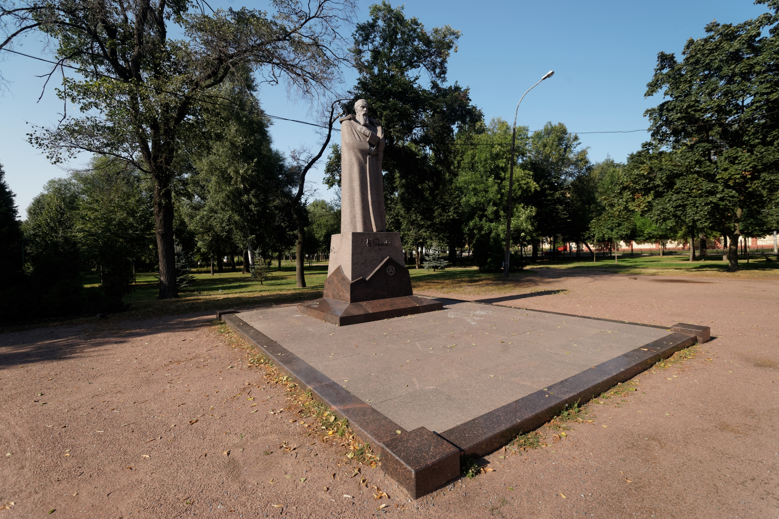 Санкт-Петербург / St Petersburg - Большо́й проспе́кт B.O. / Bol'shoy Prospekt V.O. - Сад «Василеостровец» / Sad «Vasileostrovets» - Monument to Nikoláy Konstantínovich Rérikh (Никола́й Константи́нович Ре́рих) 2010 by Viktor Vladimirovich Zayko (Виктор Владимирович Зайко)